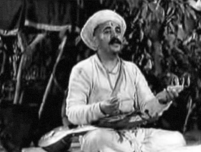 Sant Tukaram Marathi film